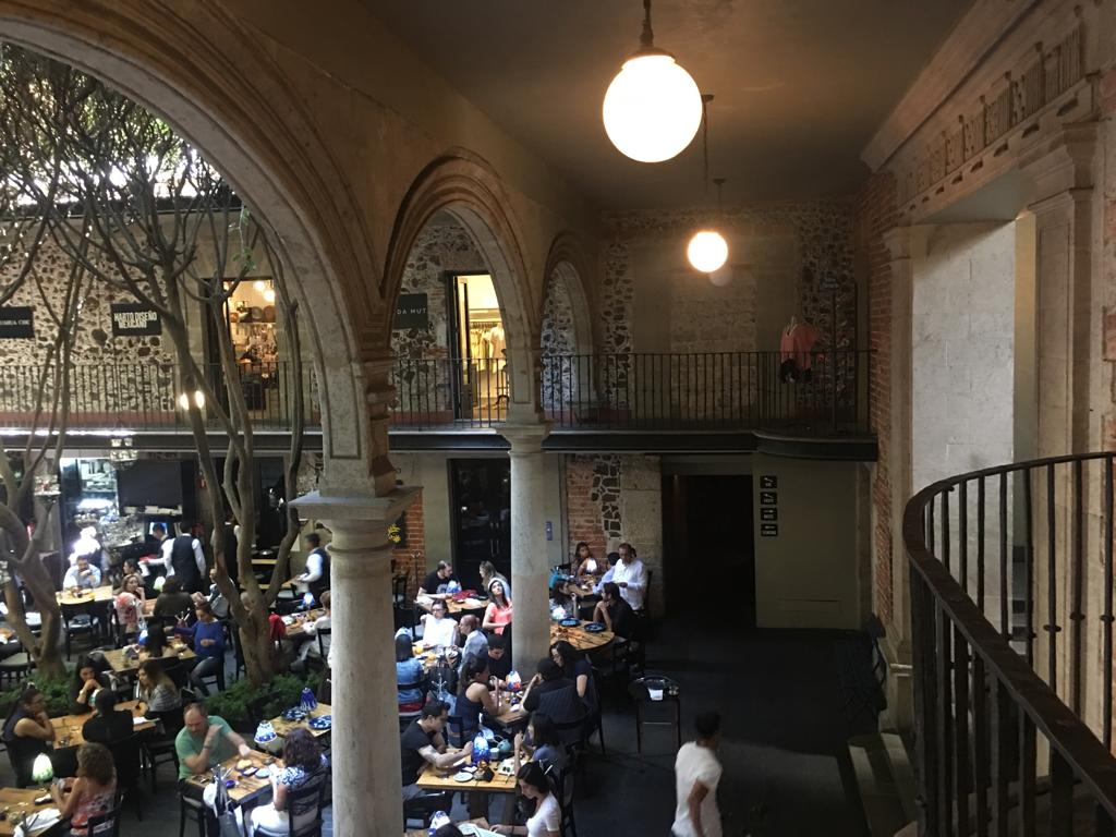 Vista desde el interior del edificio